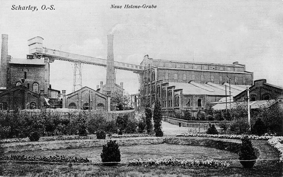 The photograph of Neue Helene-Grube (Nowa Helena zinc and lead ore mine, later part of Waryński mine) in Scharley, Germany (now Szarlej, Piekary Śląskie, Poland), the German postcard.